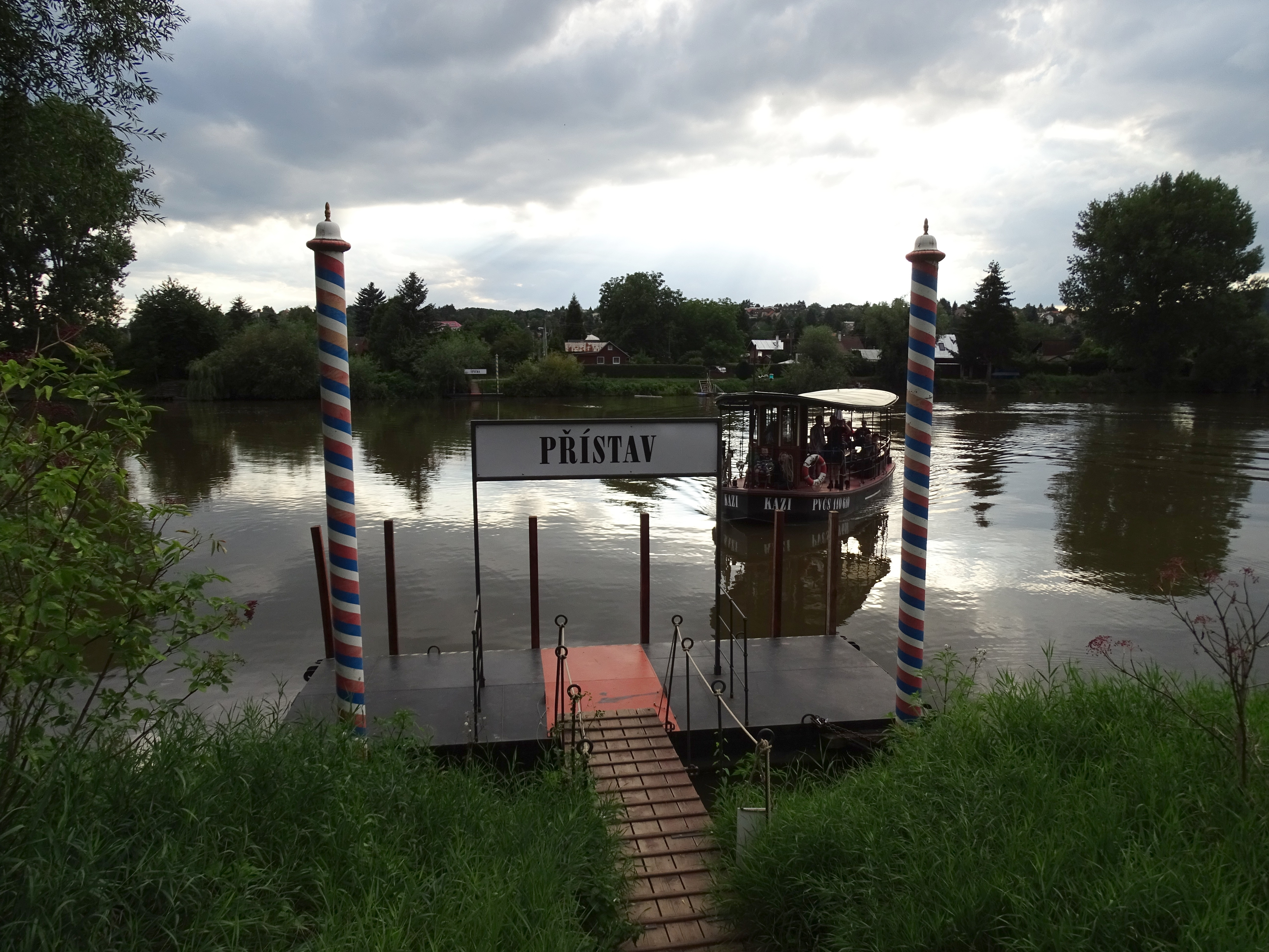 Prague-Lipence, Kazín, and Černošice-Dolní Mokropsy, Prague-West District, Czech Republic. Kazín Ferry, Kazi boat.